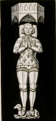 Peter I of Bourbon